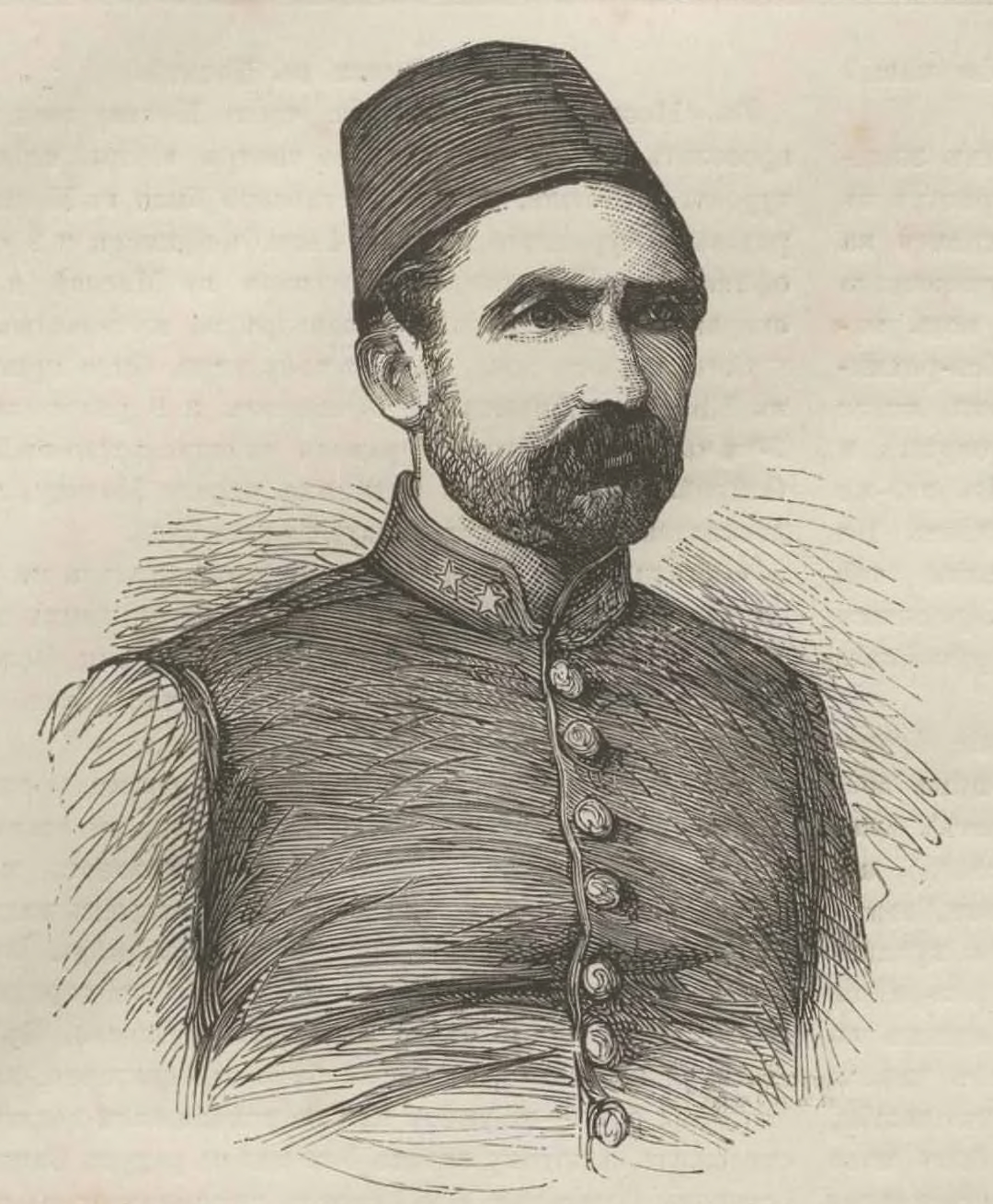 Suleyman Husnu by John Clark Ridpath (1840-1900)